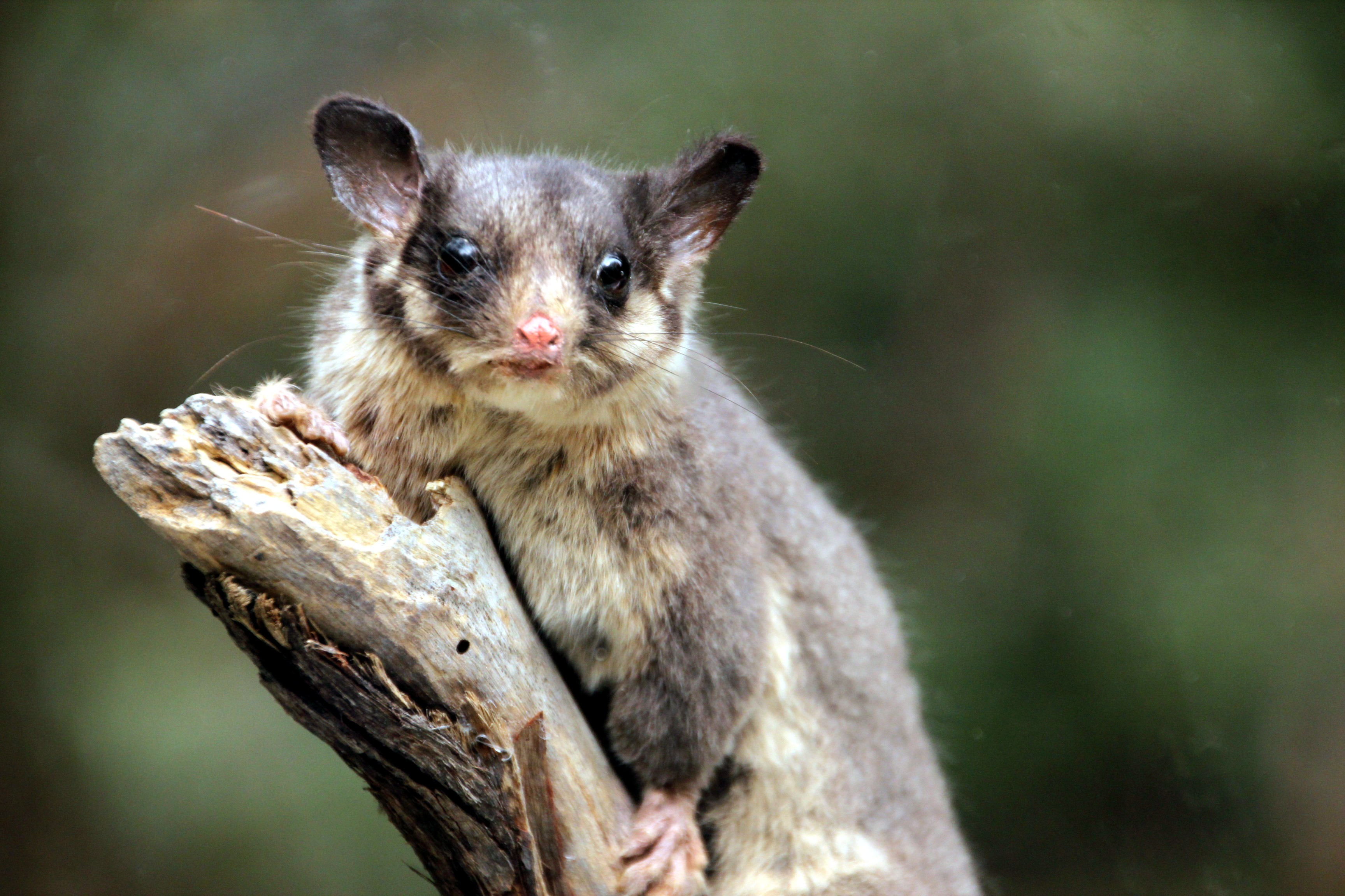 George is a taxidermied male Leadbeater's Possum (Gymnobelideus leadbeateri) that Friends of Leadbeater's Possum uses for it's educational work concerning this threatened species. George was found dead but intact on the side of a logging road about 2011 in the Victorian Central Highlands. It is assumed that George's home in the mountain ash (Eucalyptus Regnans) forests was a victim of logging, and as his home was being carted away he fell off the logging truck.